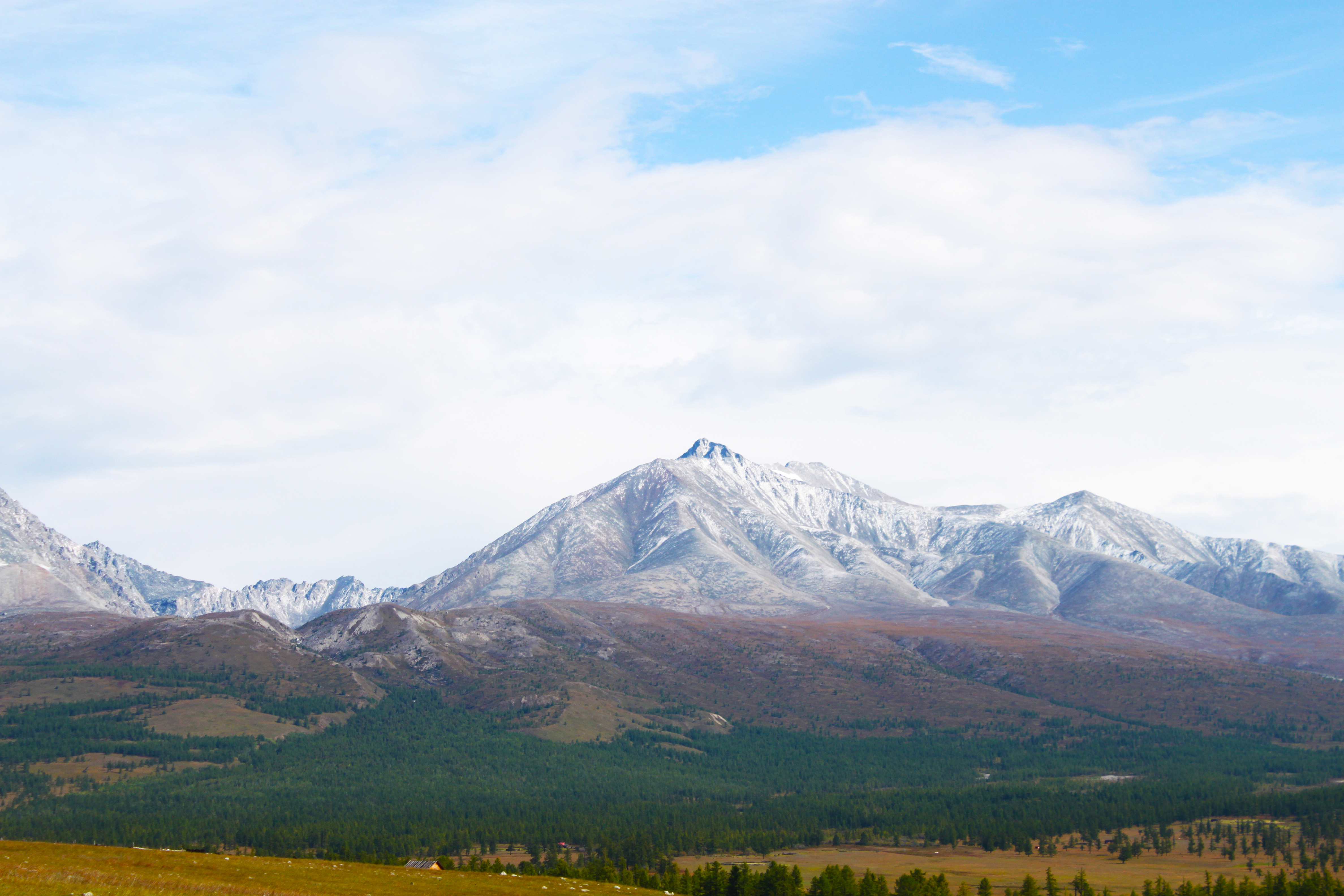 Munkh-sardik